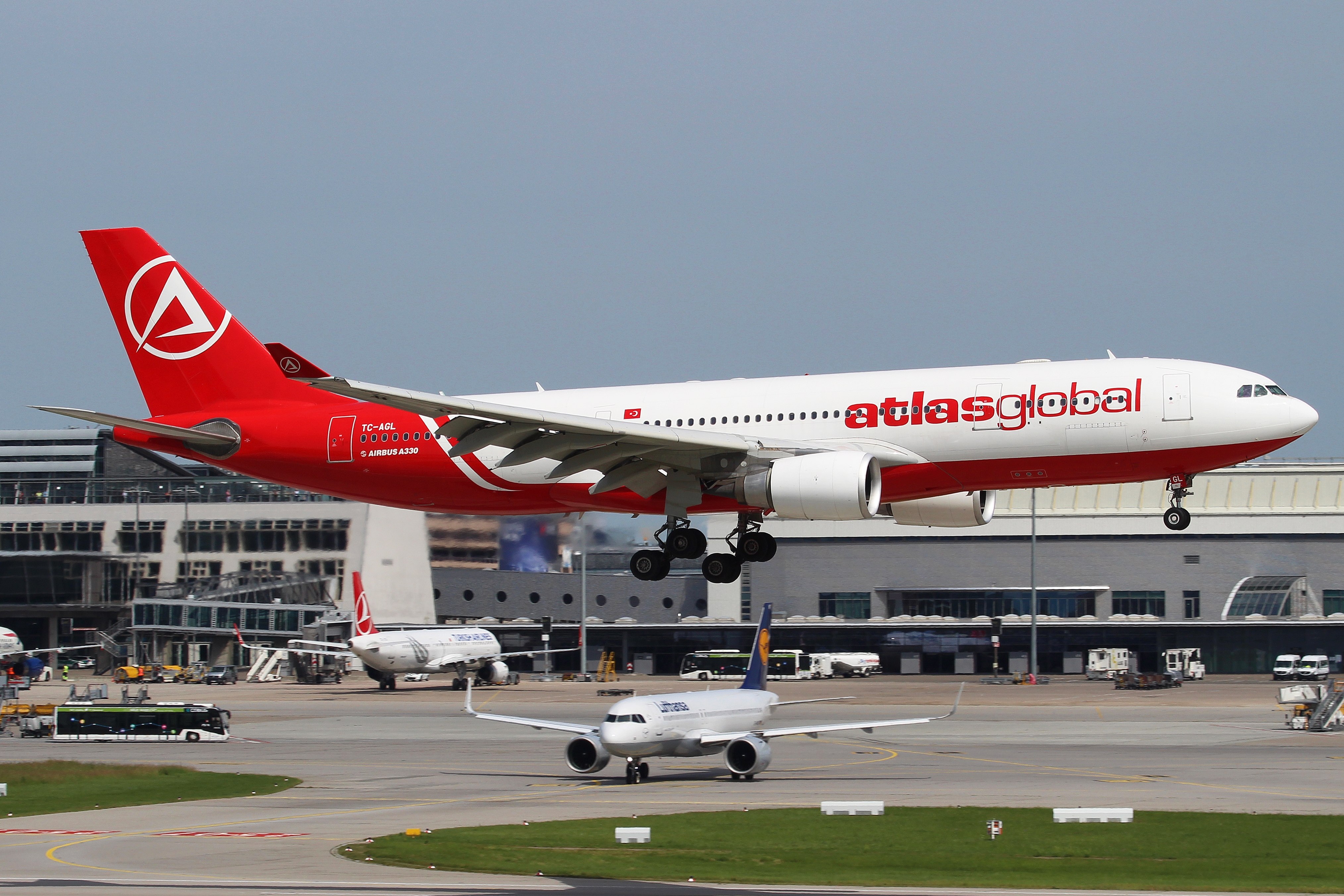 AtlasGlobal Airbus A330-200 (TC-AGL) at Stuttgart Airport.